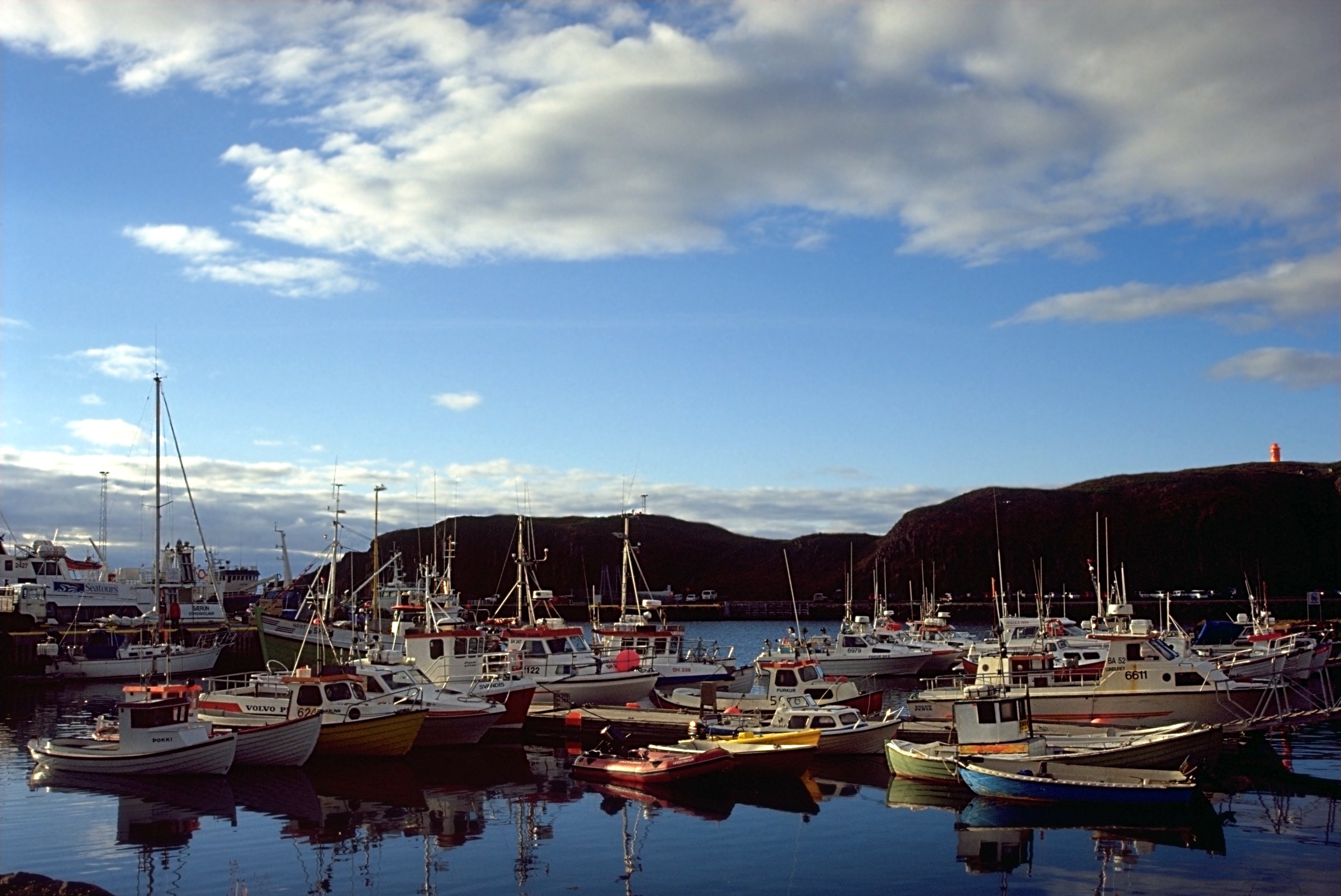 Harbour of Stykkishólmur, Iceland Photo was taken using the following technique: Film: Fuji Velvia Lens: 4/35-70 Filter: Polarisation Body: Minolta 9000 Support: Image with Information in English Bild mit Informationen auf Deutsch